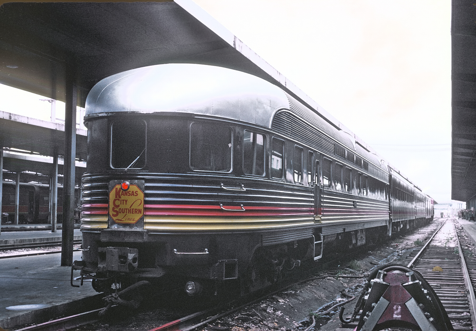 L&A (Louisiana and Arkansas Railway) Train 10, The Flying Crow, at New Orleans Union Terminal on November 22, 1967, photo by Roger Puta. A New Orleans railfan comments: "It's more likely the KCS "Southern Belle," since the Flying Crow went from KC to Houston. The Southern Belle connected Kansas City with New Orleans from 1940 until 1969."